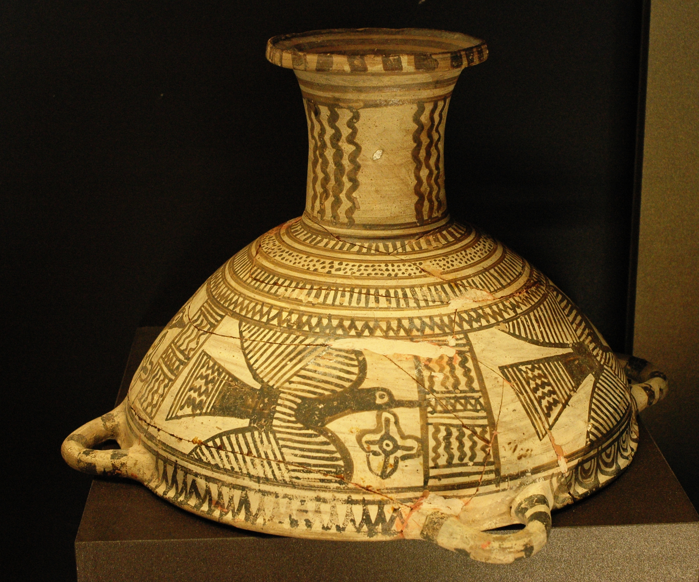 Boeotian cup with birds, ca. 560 BC–540 BC, found in Thebes, Greece.